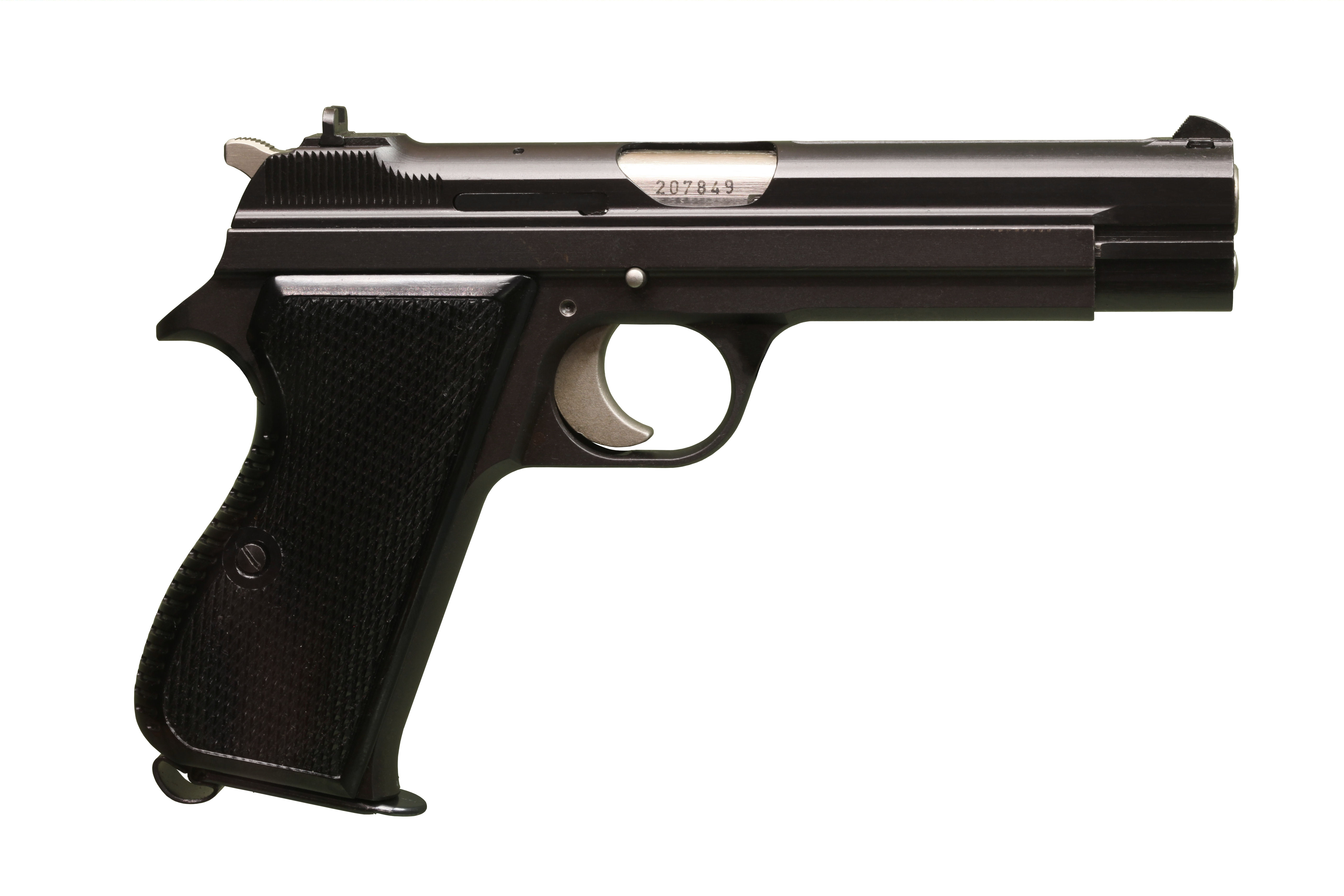 SIG P210, 2nd series. On display at Morges military museum, accession number MMV 1003468